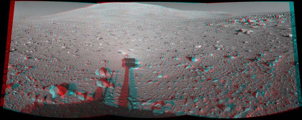 This cylindrical-perspective stereo mosaic was created from navigation camera images acquired by NASA’s Mars Exploration Rover Spirit during Spirit's sol 153, on June 8, 2004. Spirit is pointing toward the base of the "Columbia Hills."